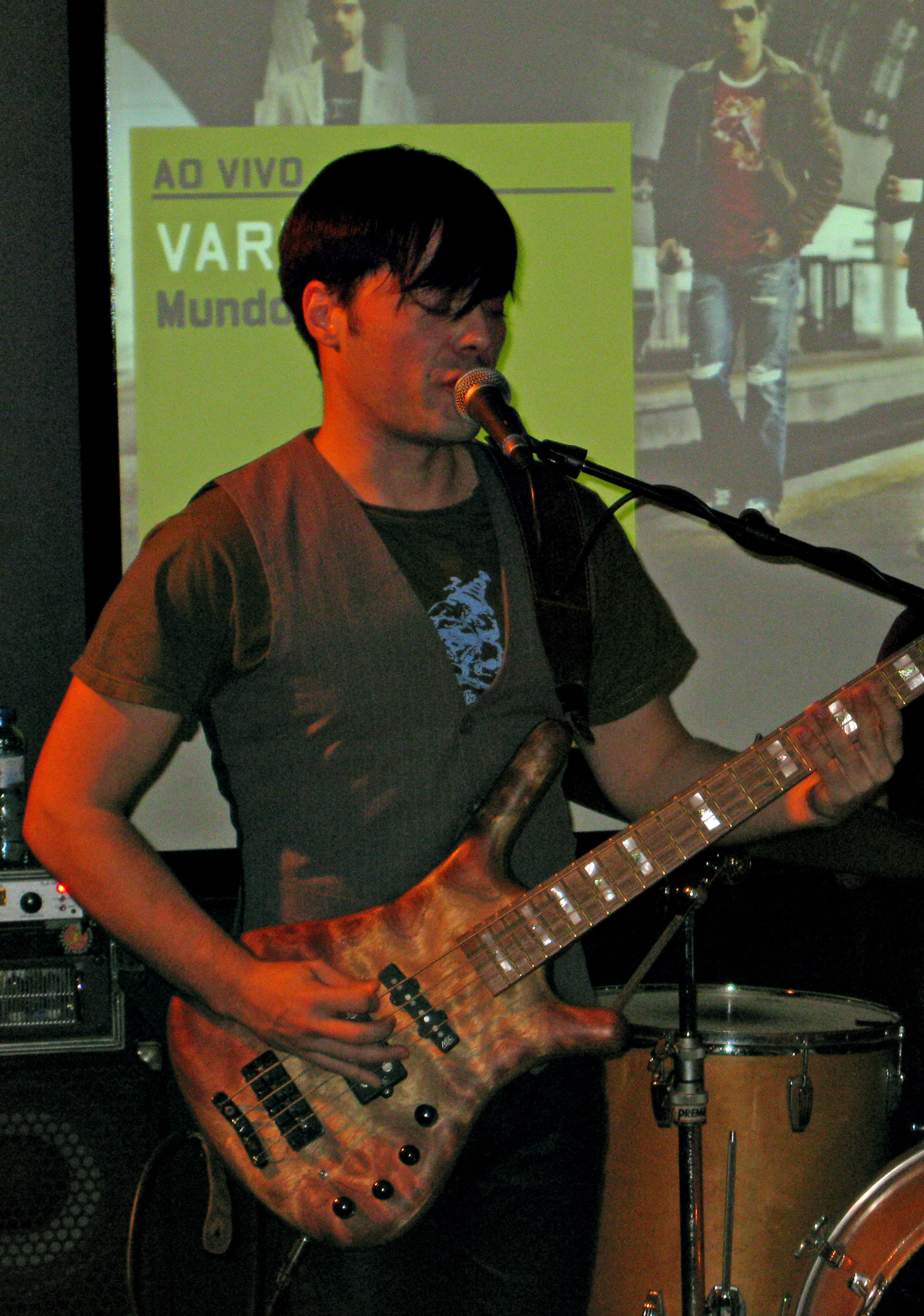 João André (musician)